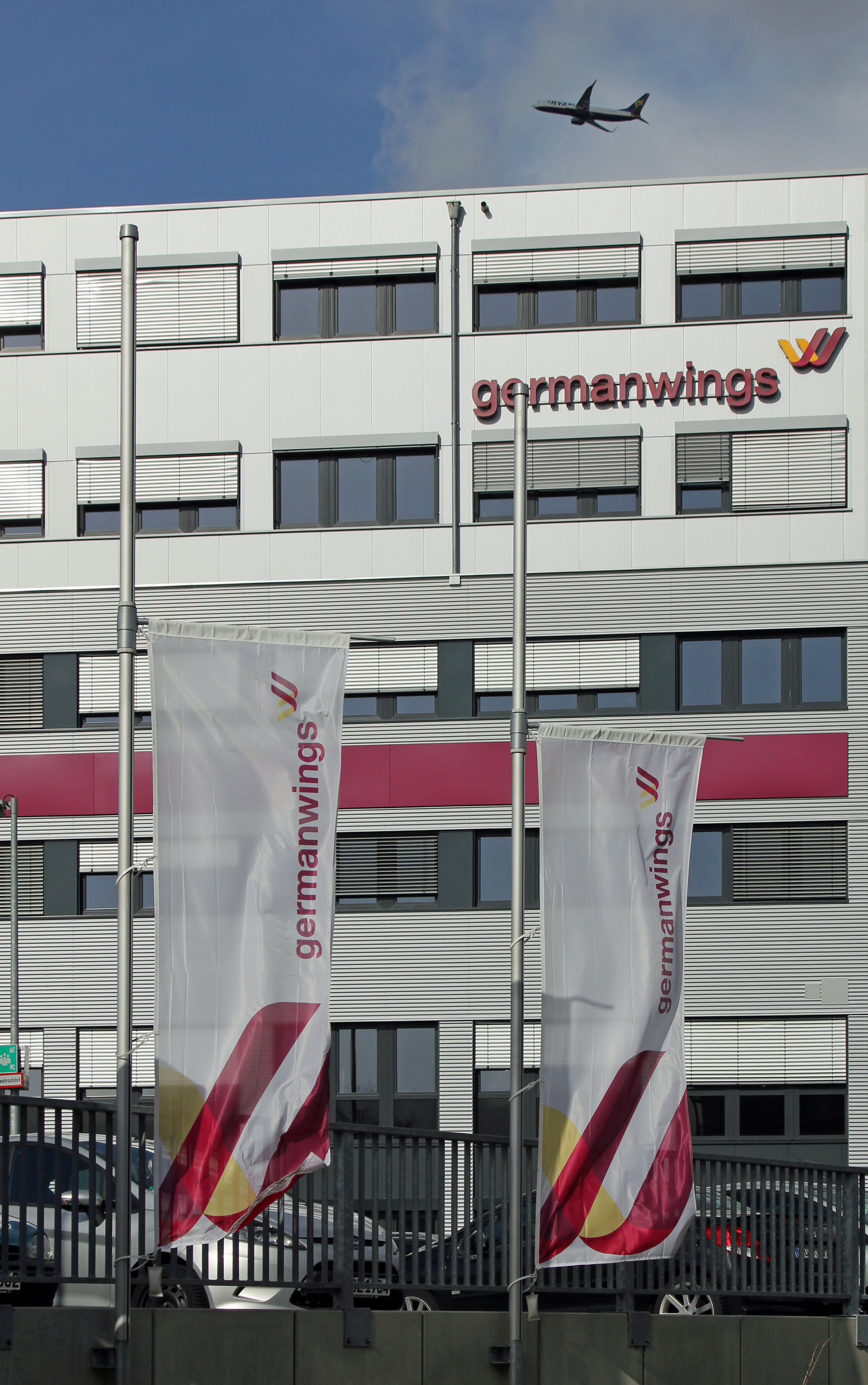 Germanwings-Bürogebäude in Köln-Porz, Germanwings-Str. 2. Fahnen sind auf halbmast geflaggt wegen des Absturzes von Germanwings-Flug 9525